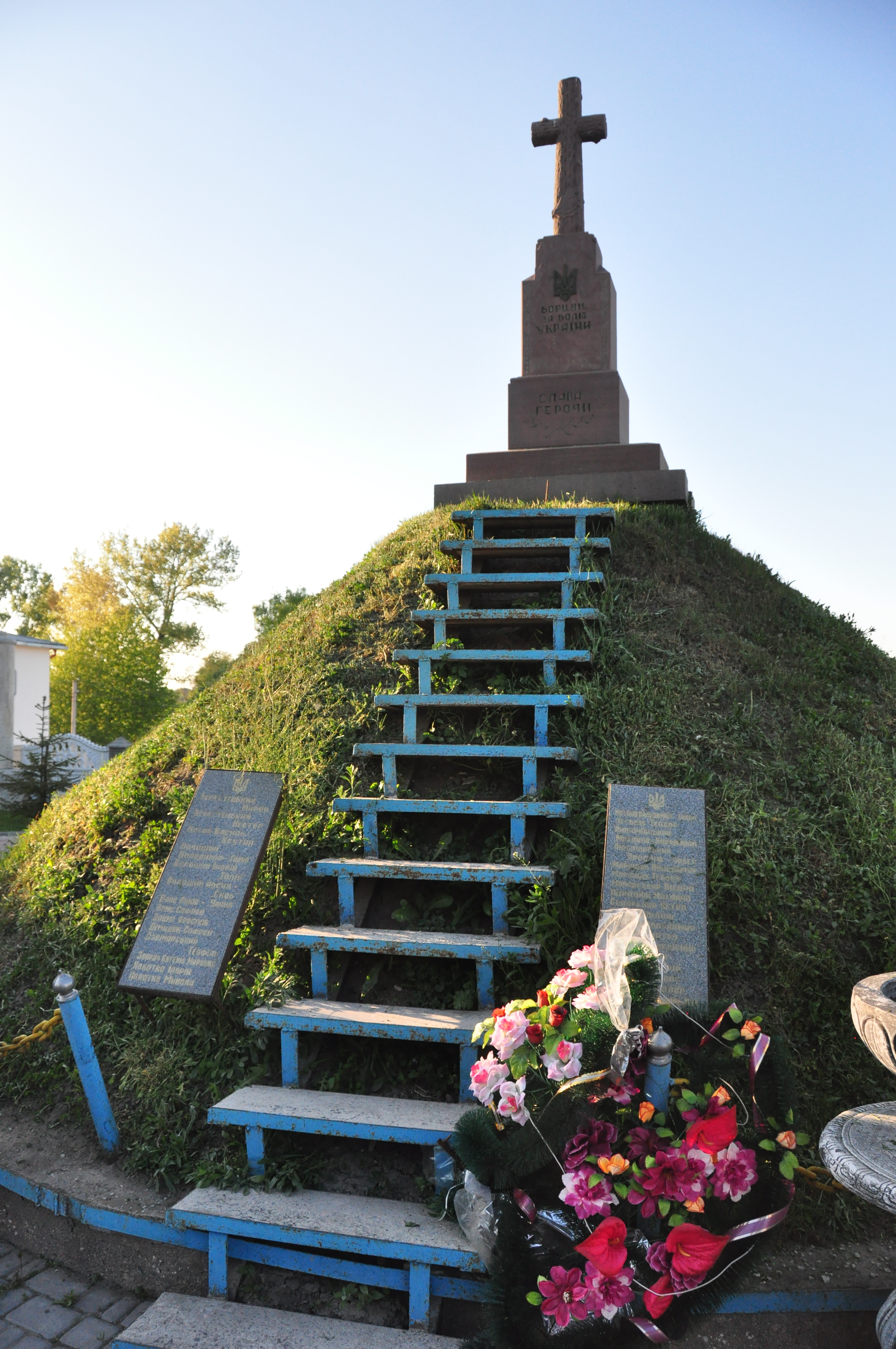 Memorial cross to the fighters for freedom of Ukraine